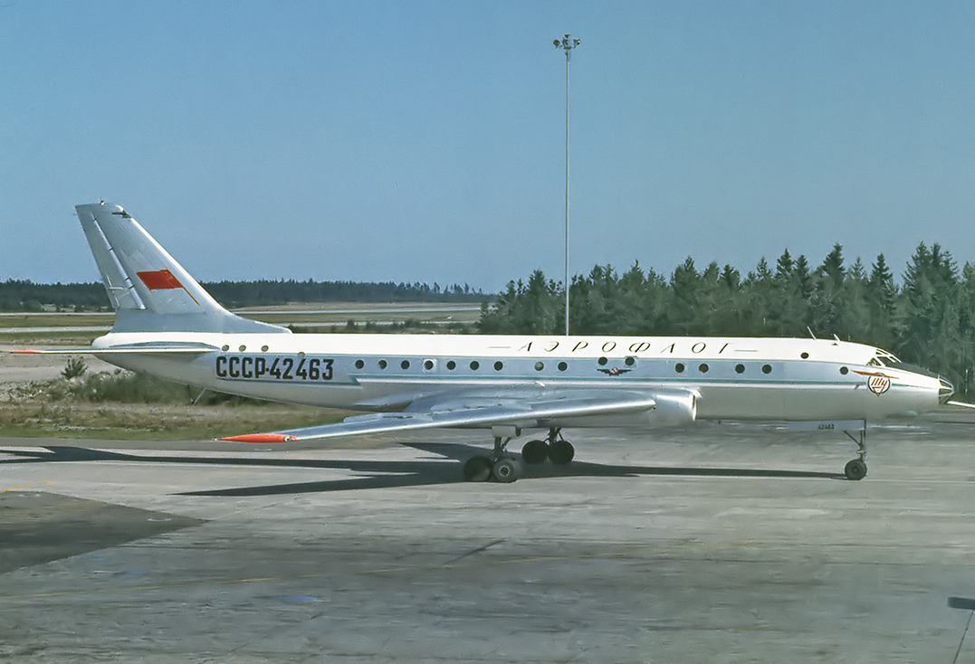 An Aeroflot Tupolev Tu-104A at Arlanda Airport (ARN / ESSA)